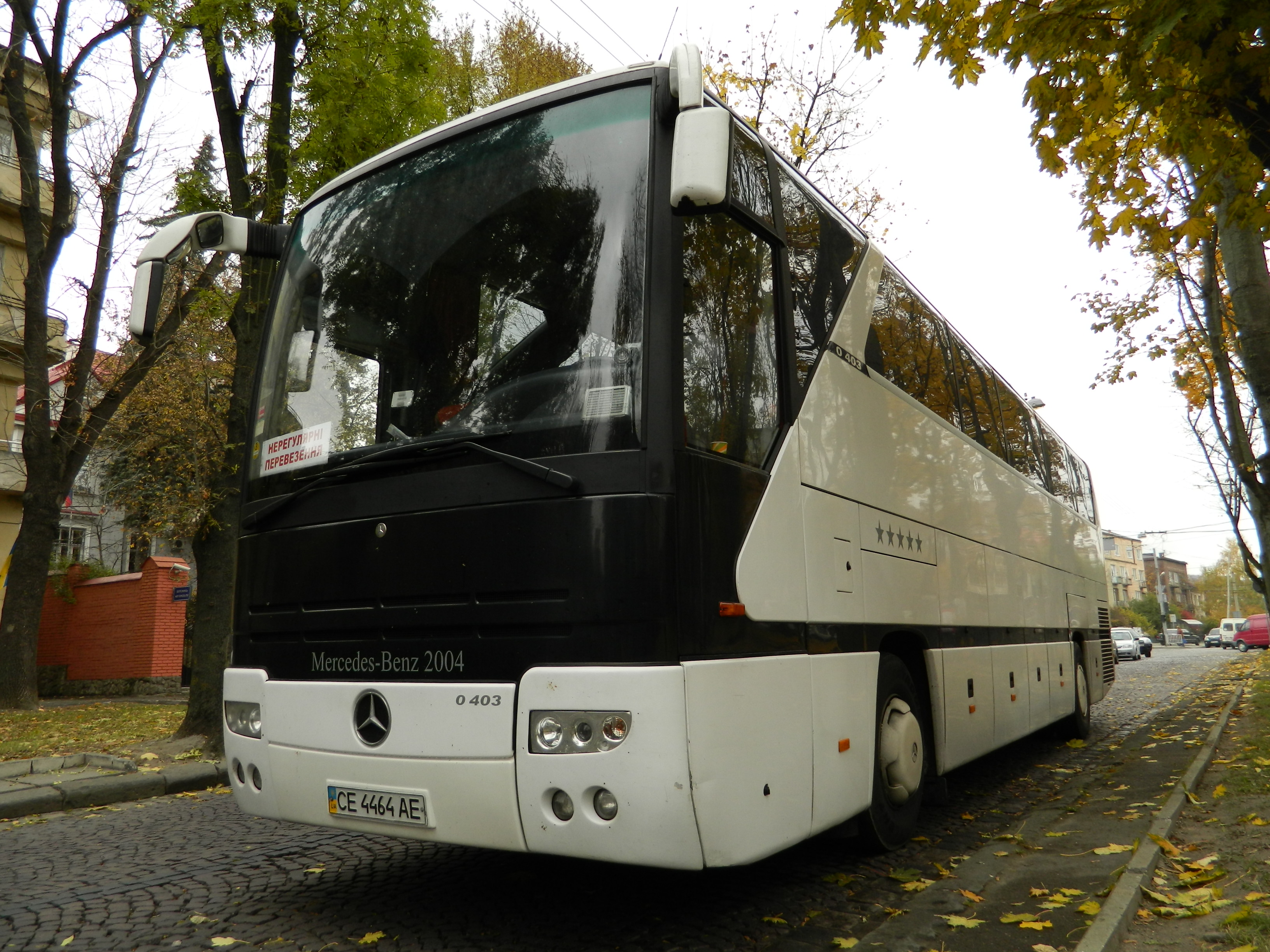 Mercedes-Benz )403 bus. Built 2004. Operator unknown.